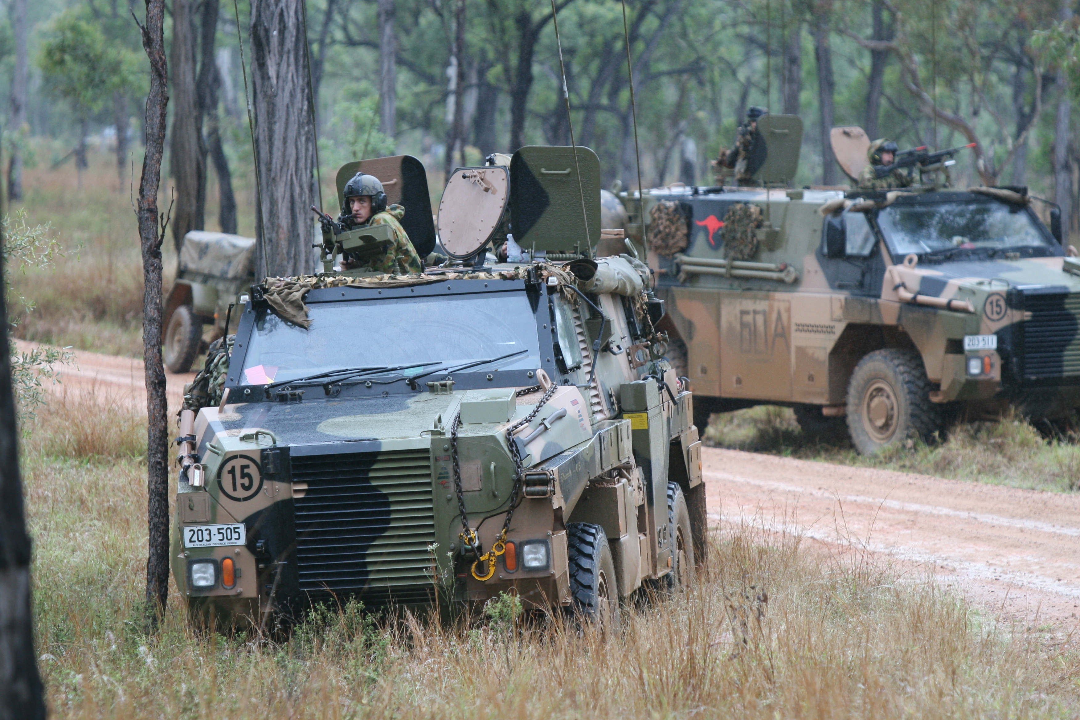 Australian Army soldiers with Royal Australian Regiment, 2nd Battalion provide security at Dingo Area at Townsville Training Area, Australia, Oct. 13, 2010. U.S. Marines and Sailors attached to Alpha Company, 1st Battalion, 3rd Marine Regiment deployed to Australia for Exercise Hamel, the Australian Infantry Battalion's dismounted combined arms training exercise.